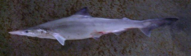 Spadenose shark (Scoliodon laticaudus) at Ranong Fishing Port, Thailand